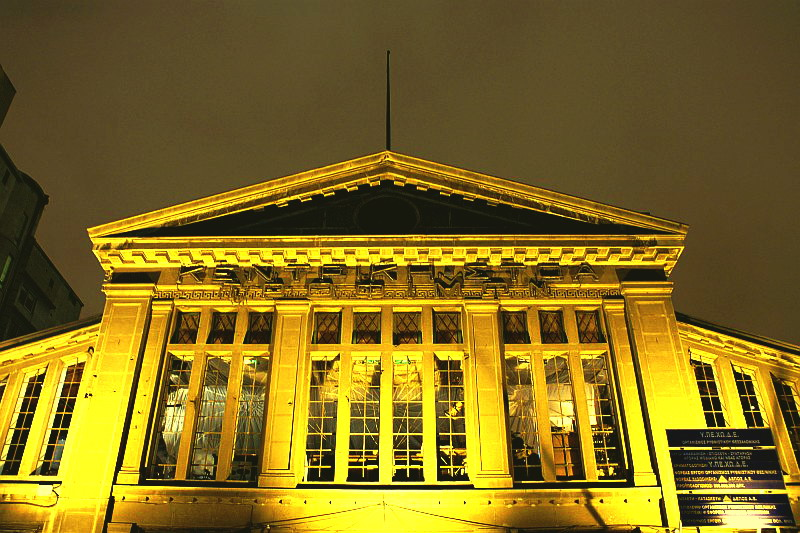 The central old market of Thessaloniki, known as "Modiano". Photo taken in 2007. Salonika, Greece.